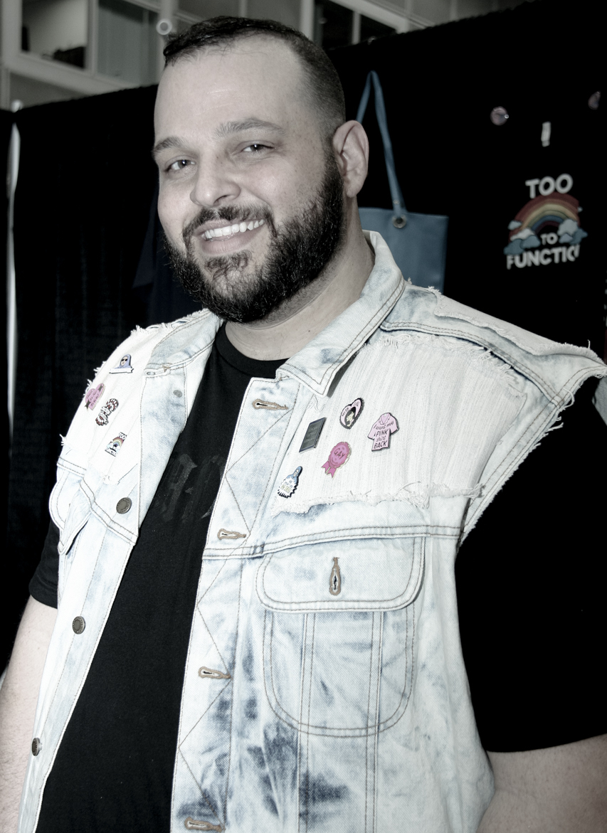 Daniel Franzese at DragCon 2018